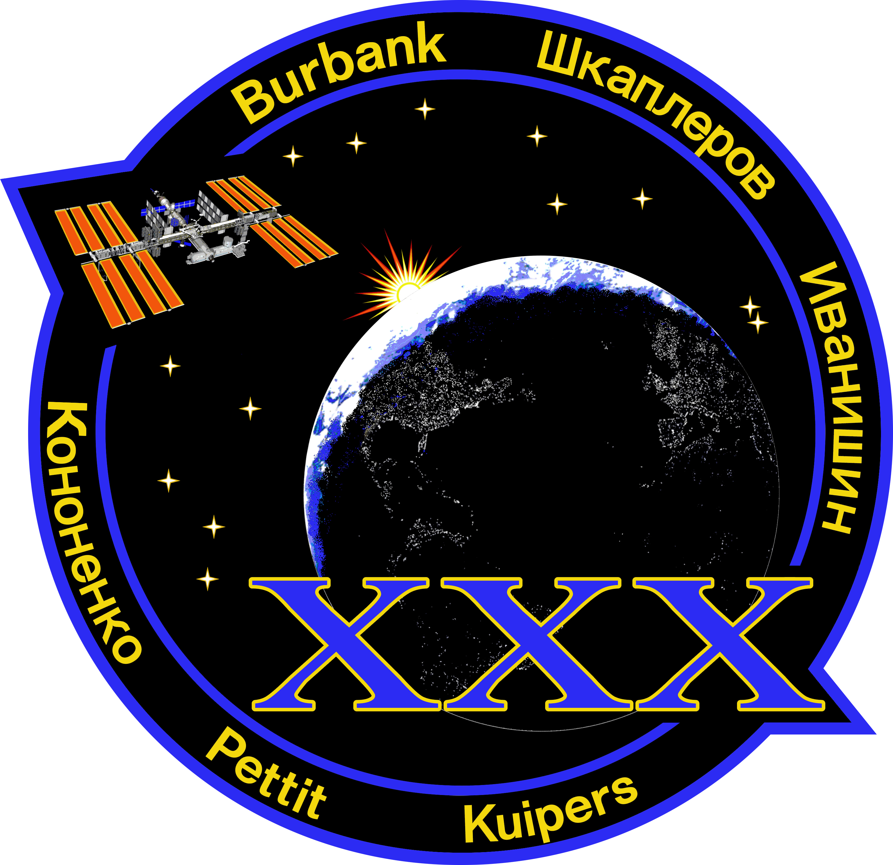 The International Space Station (ISS) program is completing the transition from assembly to full utilization as humankind celebrates the golden anniversary of human space exploration. In recognition of these milestones and especially of the contribution of those whose dedication and ingenuity make spaceflight possible, a fully assembled ISS is depicted rising above a sunlit Earth limb. Eastward of the sunlit limb, the distinctive portrayal of Earth's surface illuminated by nighttime city lights is a reminder of mankind's presence on the planet, most readily apparent from space only by night, and commemorates how human beings have transcended their early bonds throughout the previous 50 years of space exploration. The ISS, a unique space-based outpost for research in biological, physical, space and Earth sciences, in the words of the crew members, is an impressive testament to the tremendous teamwork of the engineers, scientists and technicians from 15 countries and five national space agencies. The six crew members of Expedition 30, like those who have gone before them, express that they are honored to represent their countries and the ISS team in conducting research aboard the station and adding to the body of knowledge that will enable the world's space faring countries to more safely and more productively live, work and explore outer space, paving the way for future missions beyond low Earth orbit, and inspiring young people to join in this great adventure.